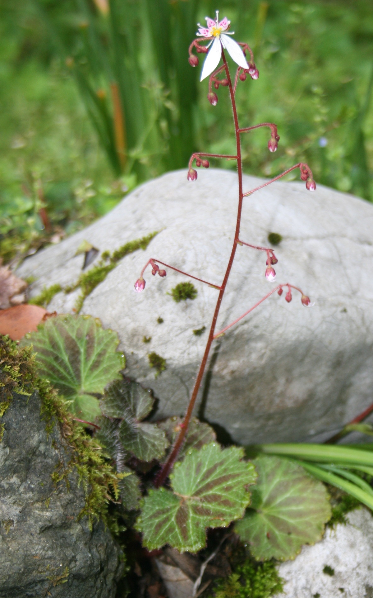 Saxifraga stolonifera seen in Taga, Shiga